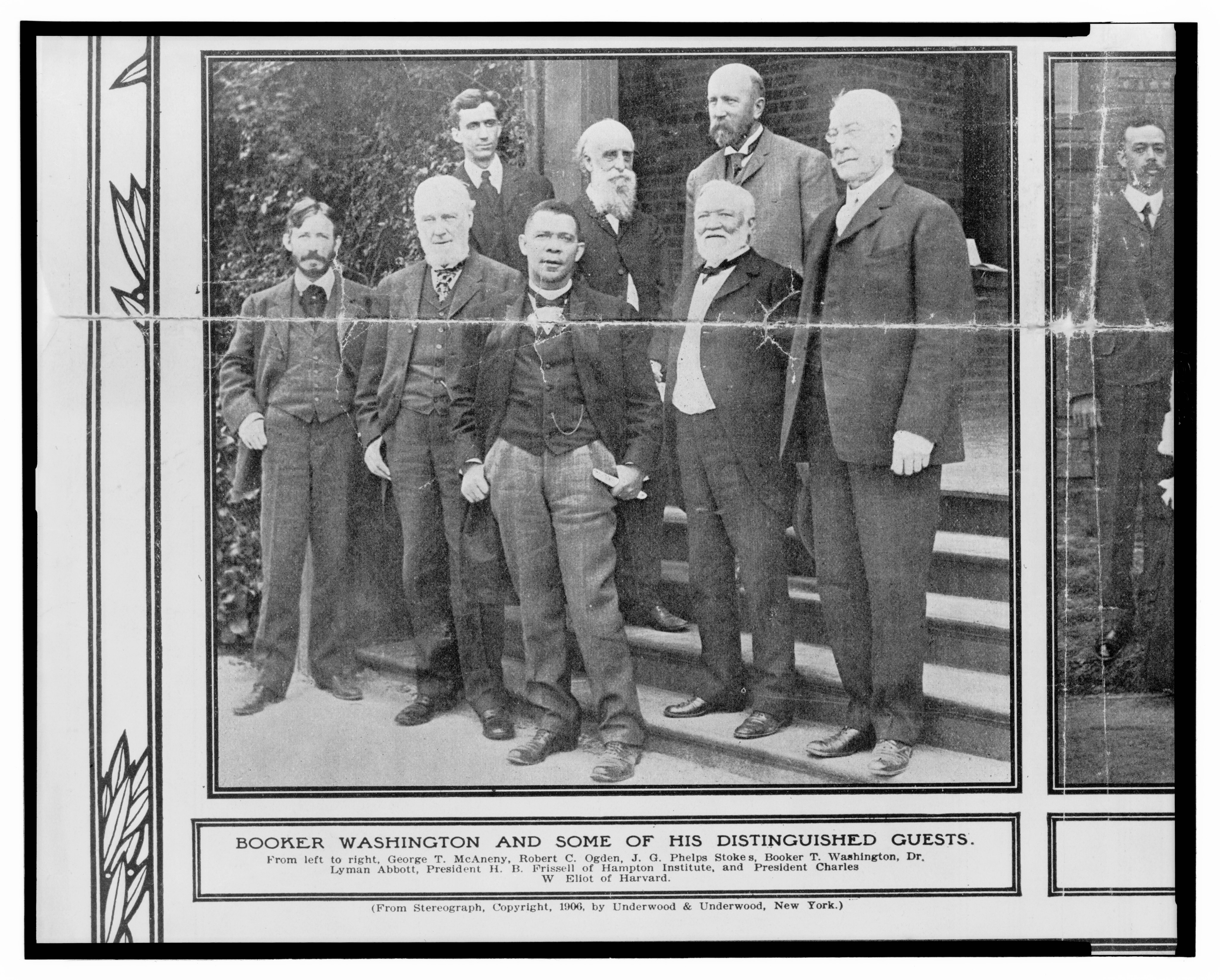 Title: Booker Washington and some of his distinguished guests Abstract/medium: 1 photomechanical print : halftone.